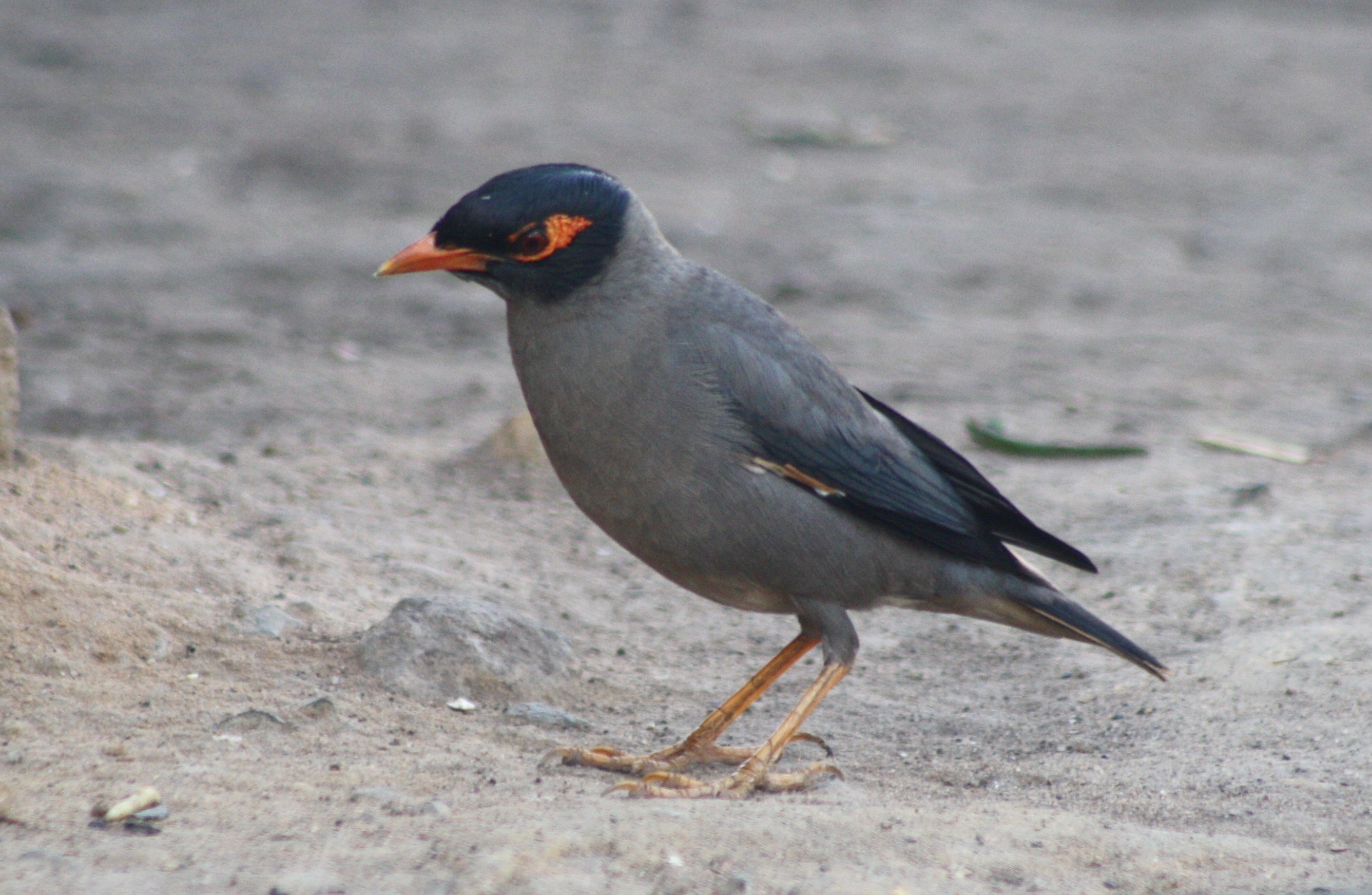 Bank Myna Acridotheres ginginianus by Dr. Raju Kasambe